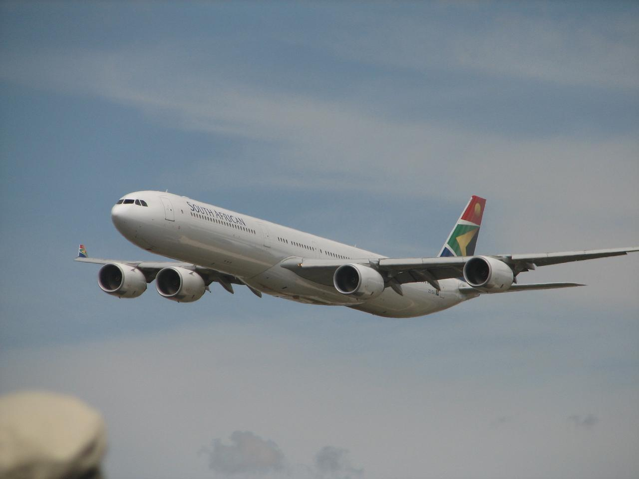 New SAA Airbus A340 at Ysterplaat AirshowNew SAA Airbus A340 at Ysterplaat Airshow